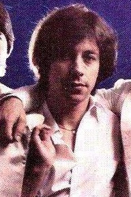 Pedro Carrera-cantante argentino